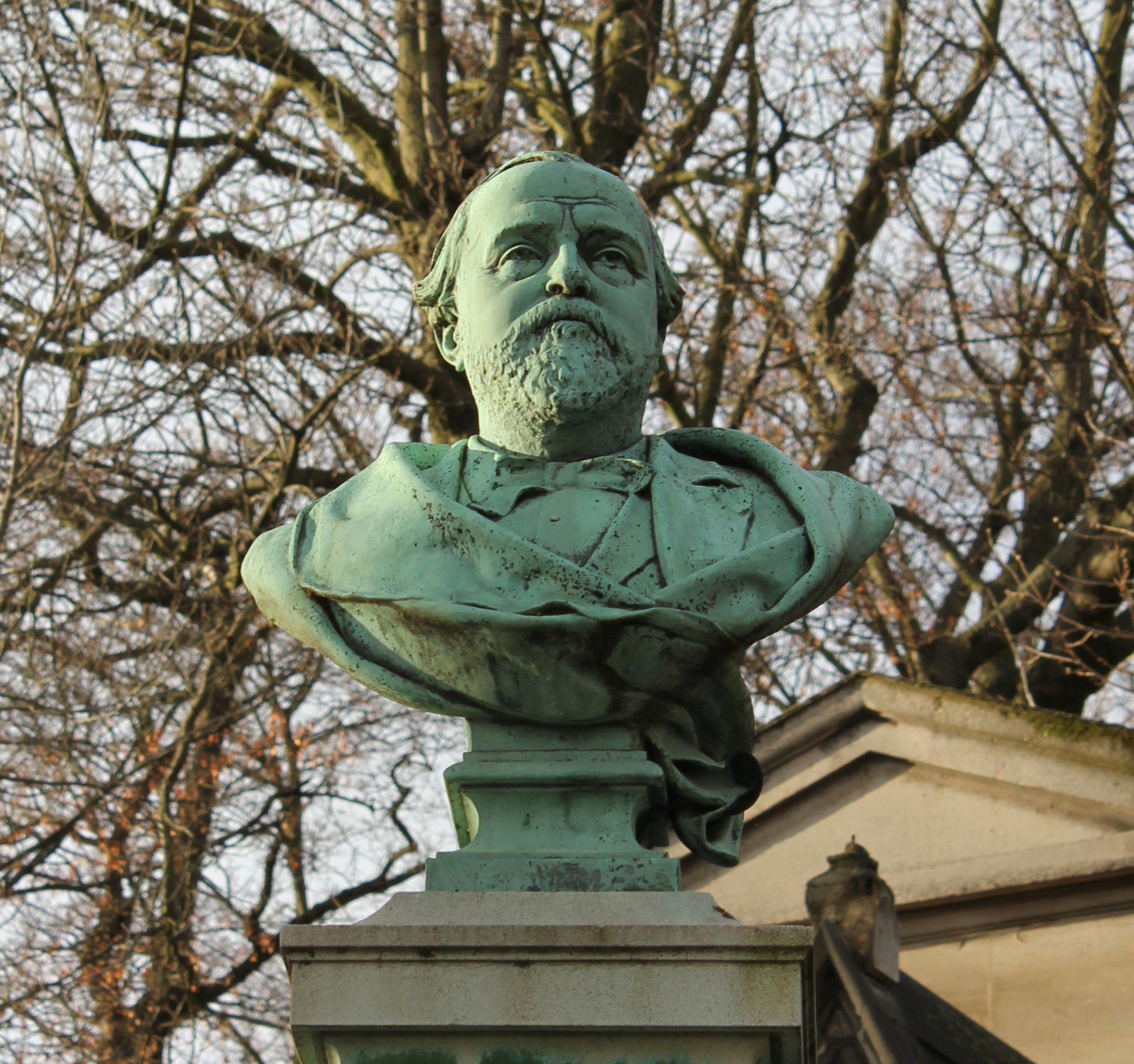 Camille Crespin du Gast's tombstone in Père Lachaise Cemetery, in Paris.